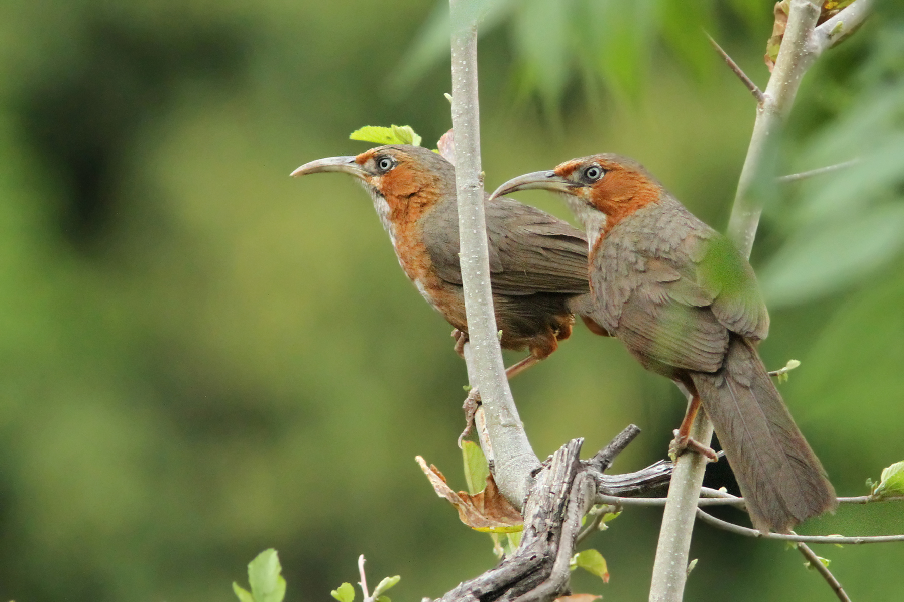 Pomatorhinus erythrogenys at Pangot (Uttarakhand), India